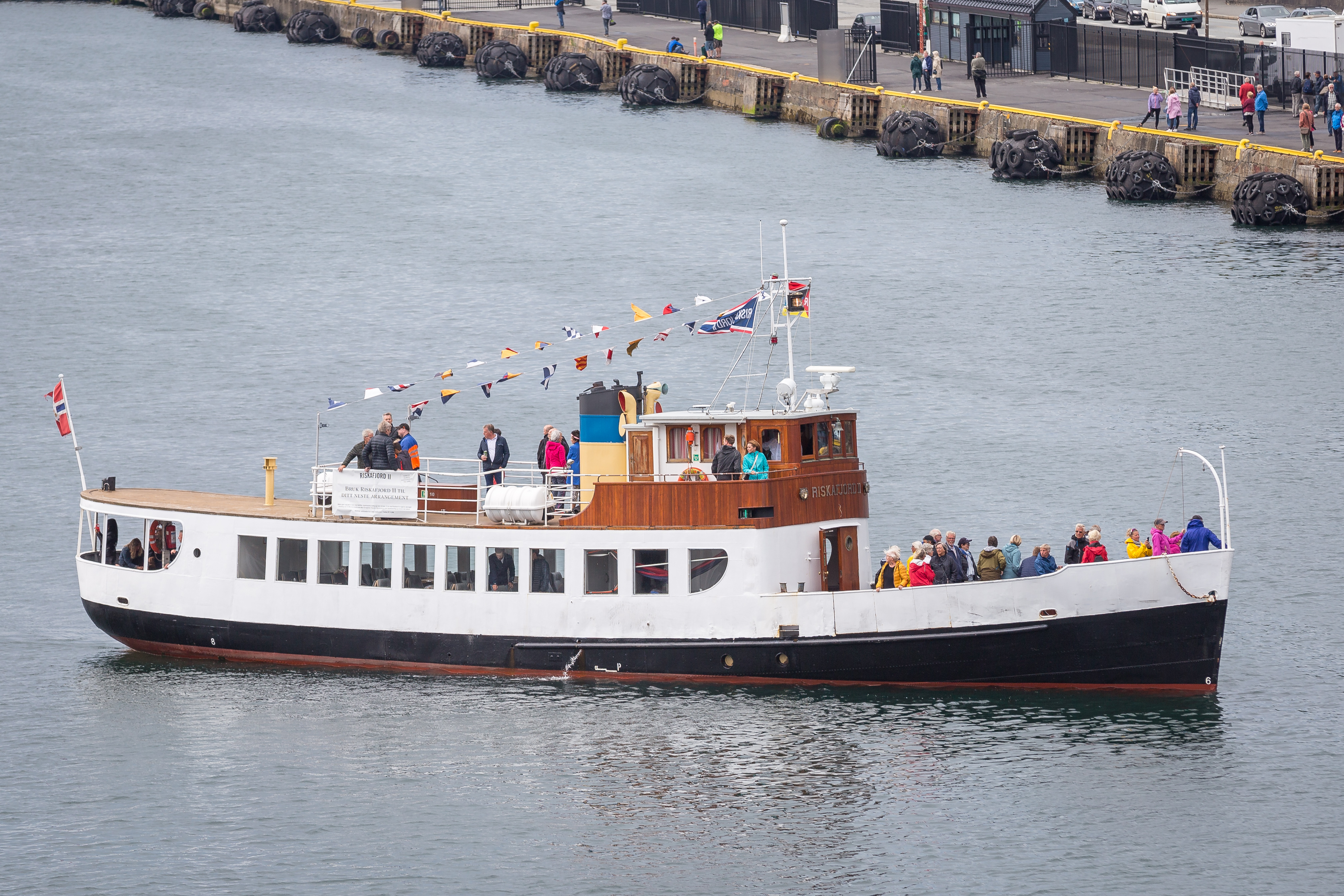 From the arrival parade at Fjordsteam 2018. The maritime heritage festival took place between August 2 and August 5 2018 in Bergen, Norway.